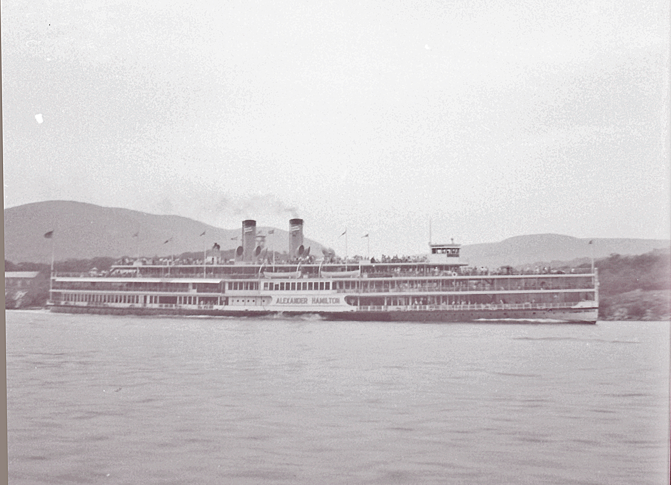 PS Alexander Hamilton on Hudson 1966